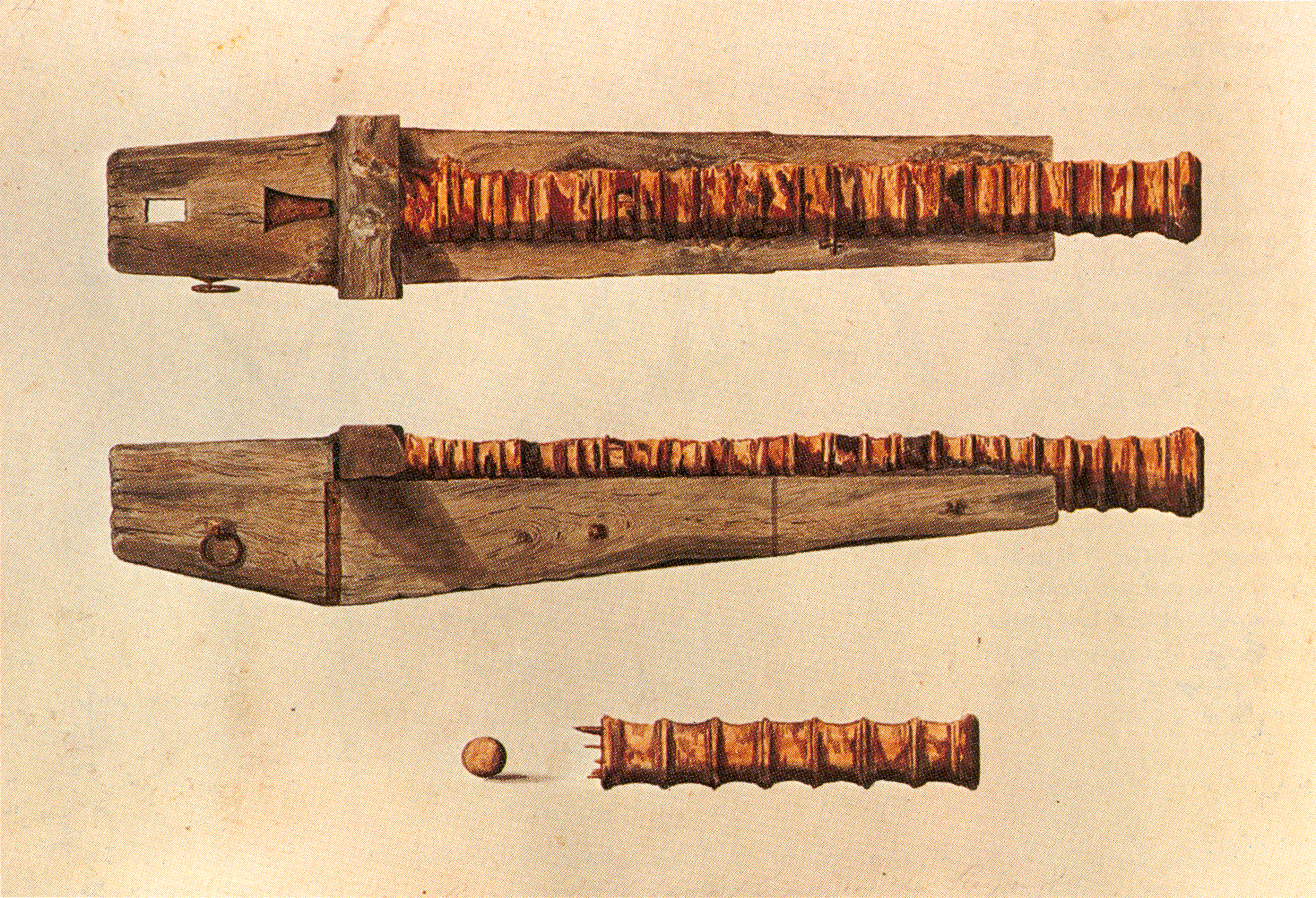 Watercolor painting recording an iron gun with carriage (though the wheels are missing) and part of an iron gun salvaged by John and Charles Deane from the wreck of the Tudor-era warship Mary Rose 1836-40.